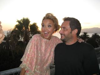 Joey Shaw and Arielle Kebbel on set of H mag in Los Angeles